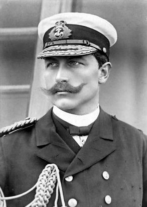 Wilhelm II of Germany from Cabinet Card